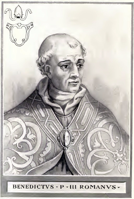 This illustration is from The Lives and Times of the Popes by Chevalier Artaud de Montor, New York: The Catholic Publication Society of America, 1911. It was originally published in 1842.